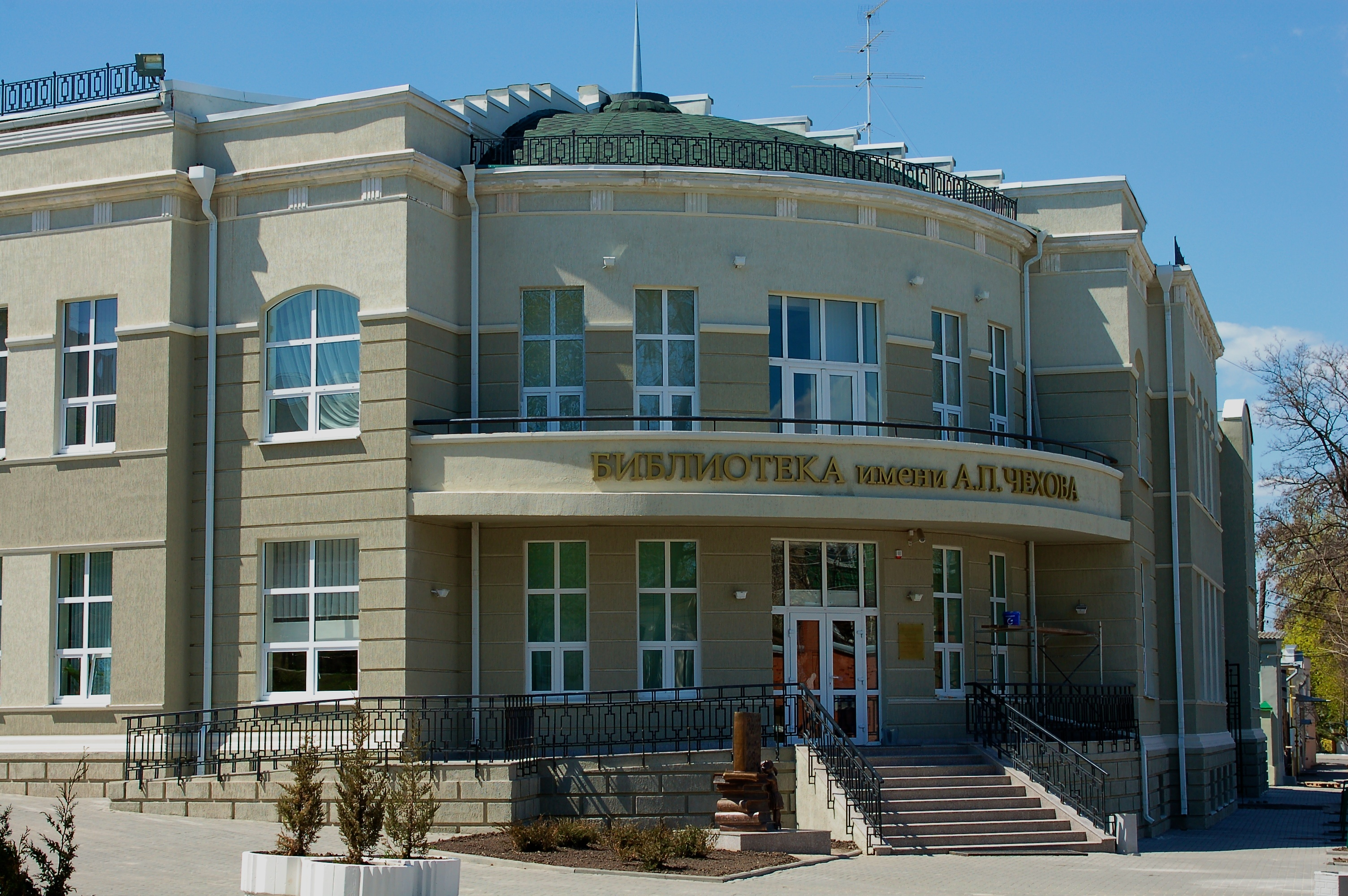 The new building of the Chekhov Public Library in Taganrog, which was inaugurated in Jan. 2010